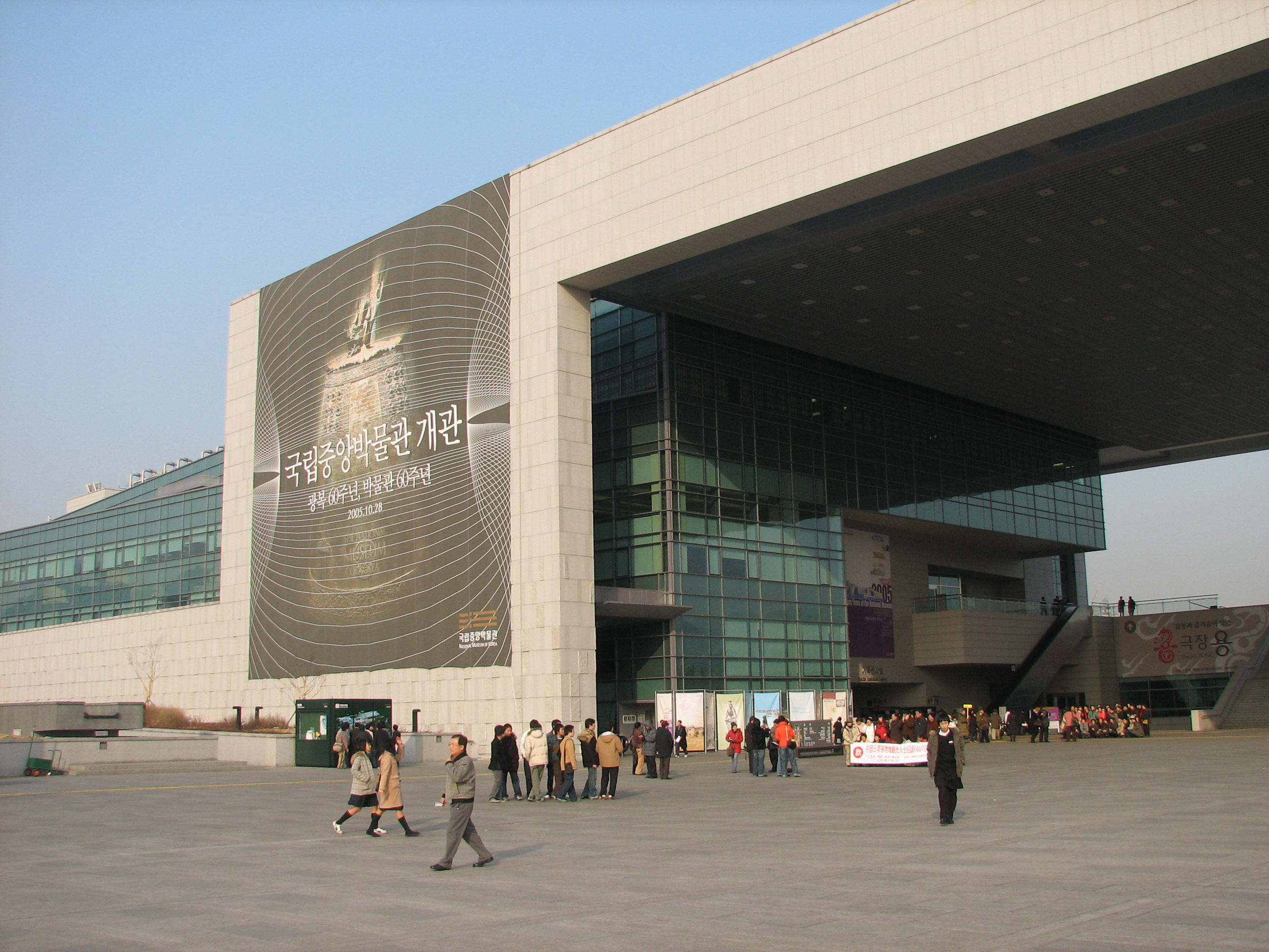 The exterior of the National Museum of Korea.